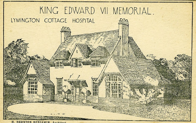 Old print of King Edward VII Hospital, Lymington